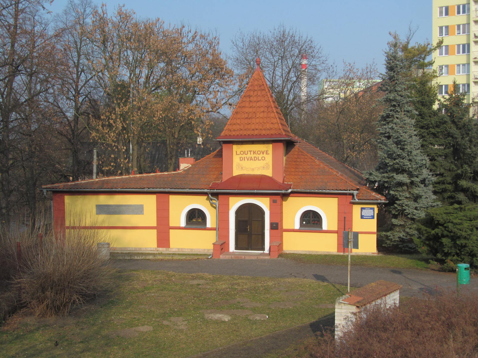 Puppet theatre from 1920 in Louny